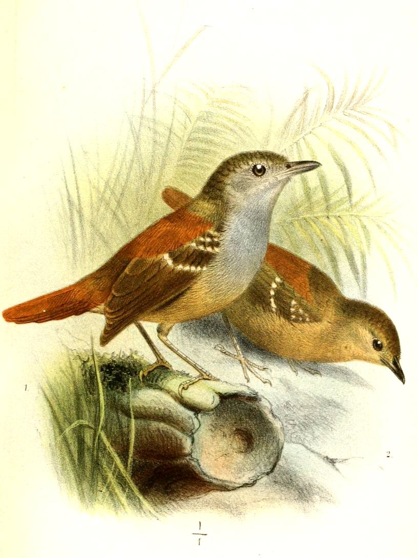 Myrmotherula erythrura = Epinecrophylla erythrura, Rufous-tailed Antwren